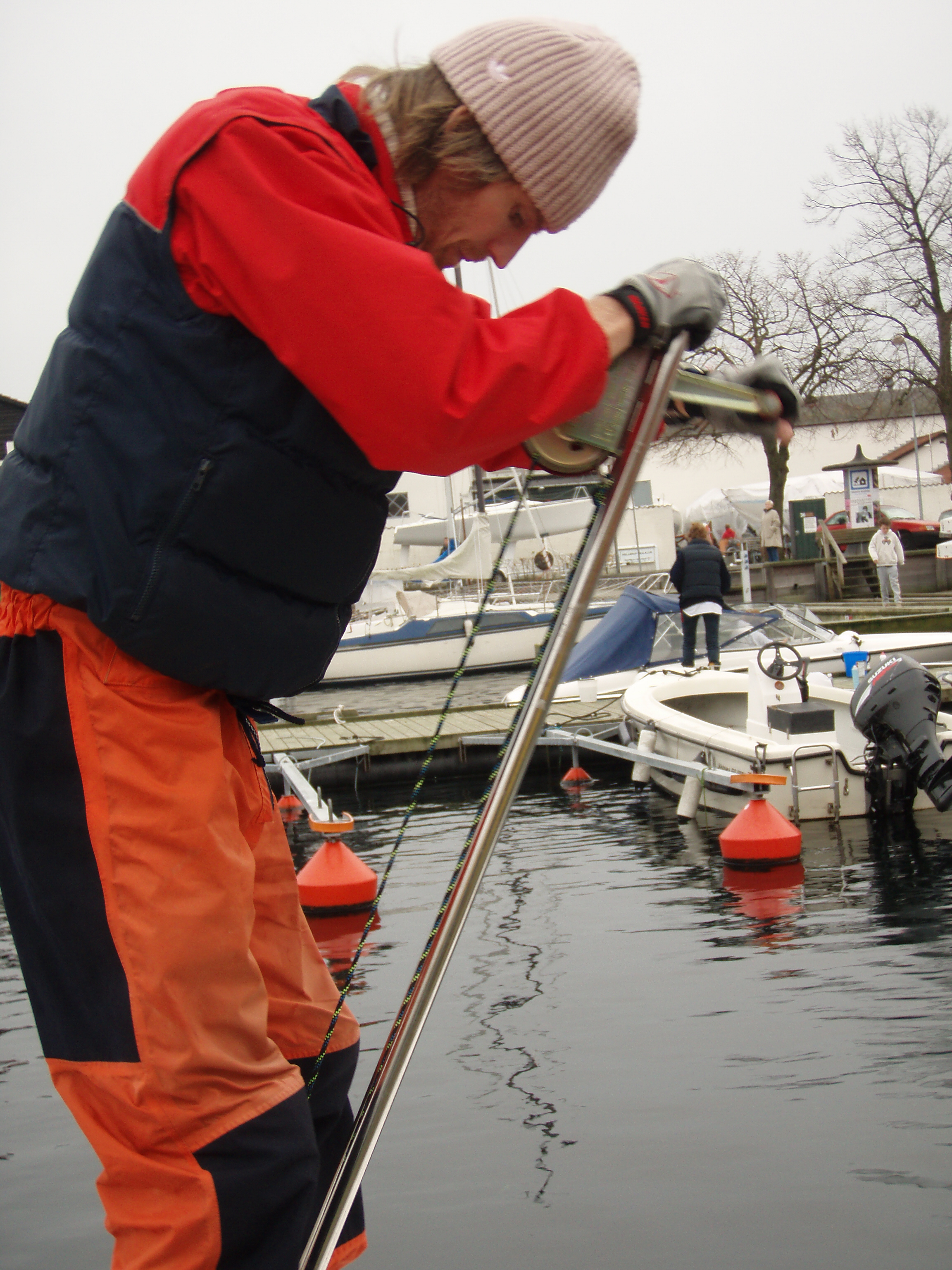 CB66: The keel is being raised. Picture taken in Hellerup, Denmark by Liv Juhl Jacobsen, November 2006.